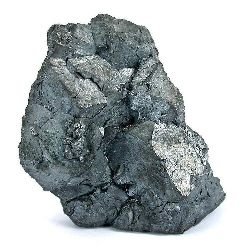 Argyrodite Locality: Colquechaca (Aullagas), Chayanta Province, Potosí Department, Bolivia (Locality at ) Size: 4.7 x 4.6 x 1.7 cm. Argyrodite is one of the rarer silver species, a sulfide with GERMANIUM as a main constituent! It usually occurs as small crystals in rounded ugly masses. Here we have SHARP, euhedral, lustrous crystals to about an INCH in size! This is an incredible specimen of a very rare species, from silver mining that predated the more famous (among modern collectors, anyhow) deposits of Chanarcillo in Chile. Ex. British Museum of Natural History and Dr. Mark Feinglos Collections.